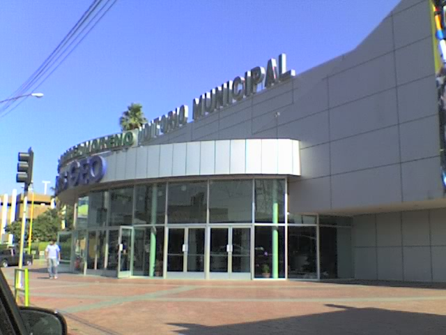 Tijuana's municipal auditorium.